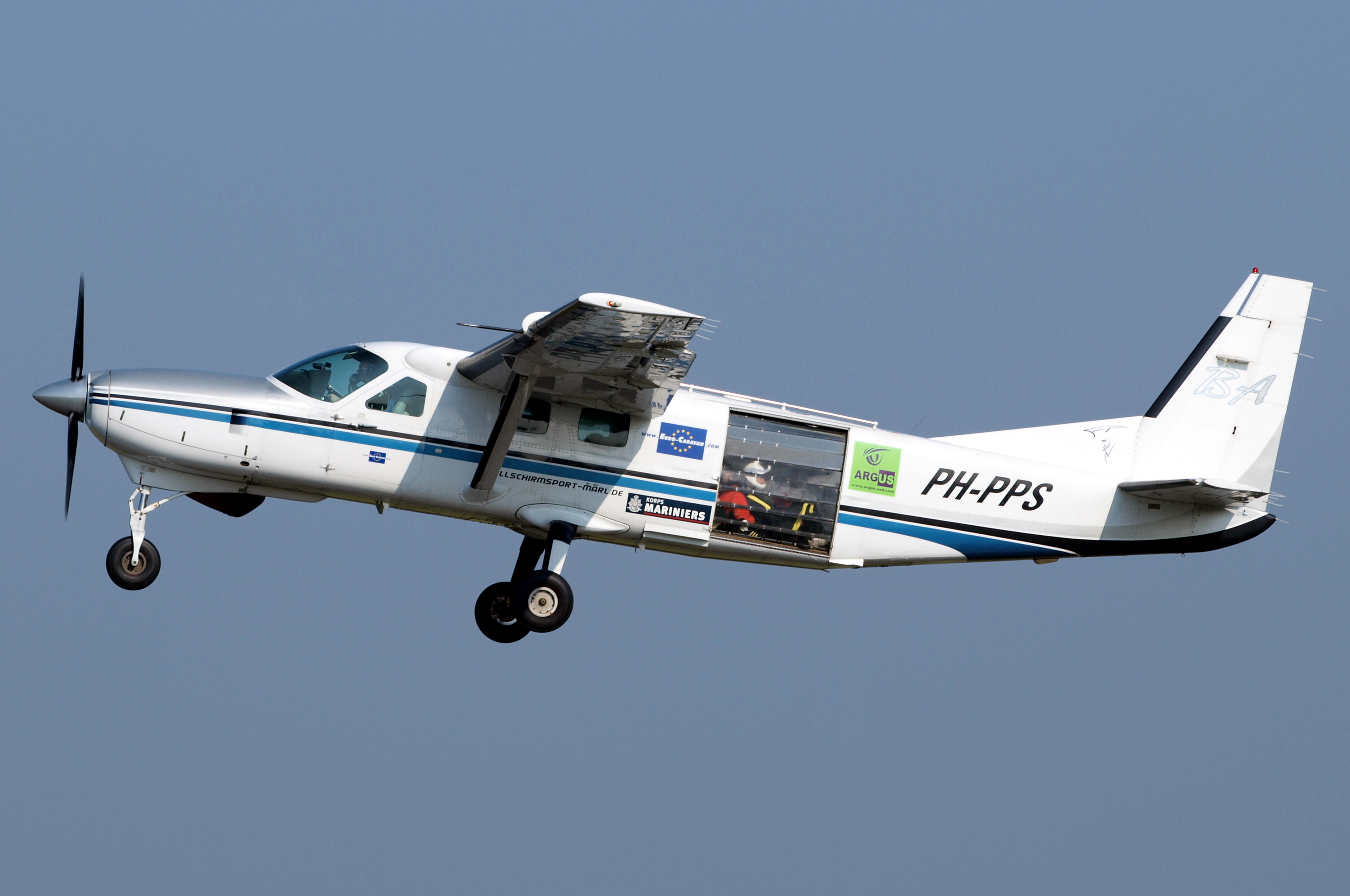 Photographed at Teuge International Airport. OLYMPUS DIGITAL CAMERA